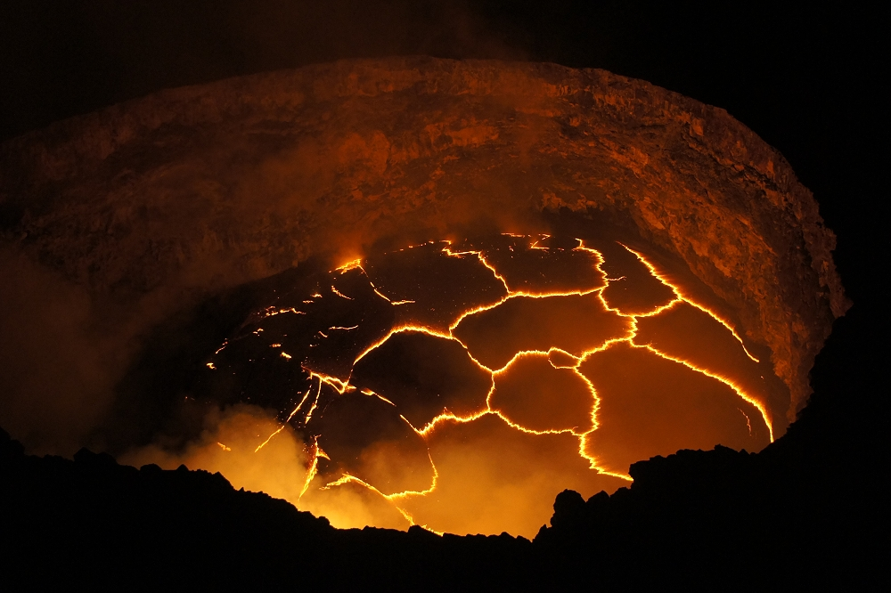 Lava lake in Halema'uma'u crater. Kilauea volcano, Hawaii.